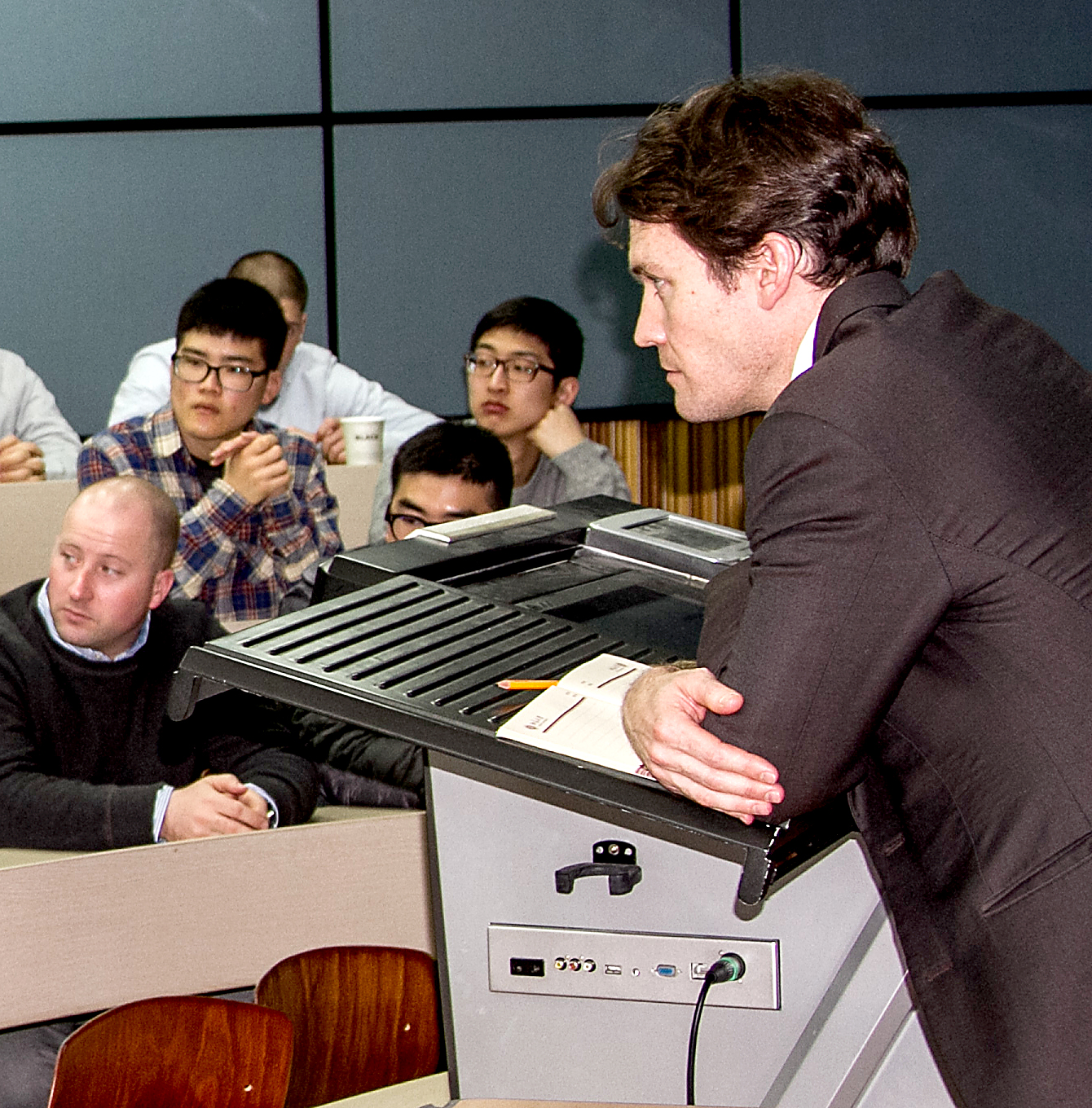 A 3-2 General Support Aviation Soldier discusses the topics during the seminar at the Yonsei University with Professor John Delury, students and other Soldiers.